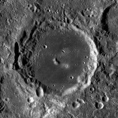 Hubble lunar crater - LROC image